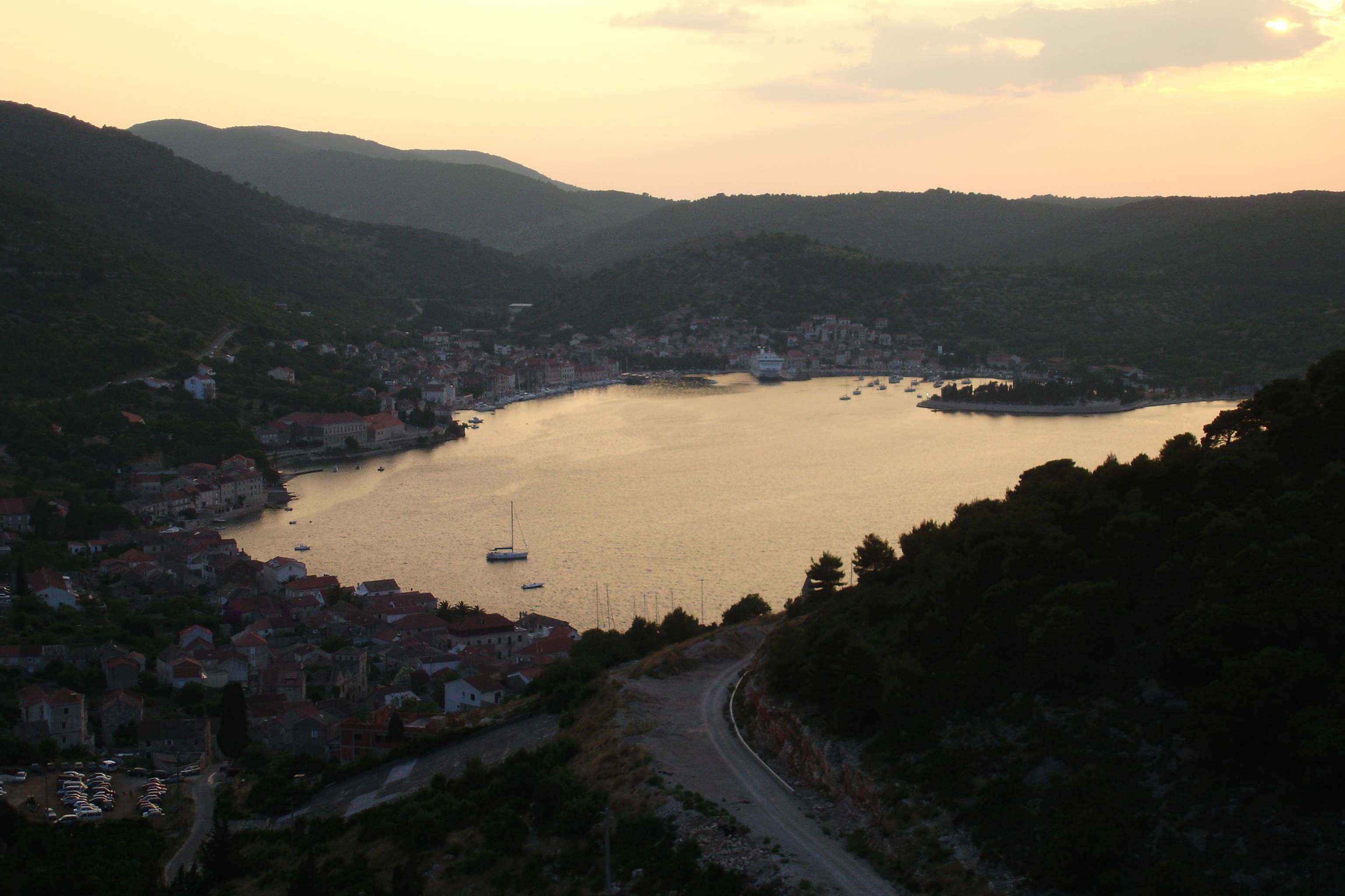 Vis at dusk.